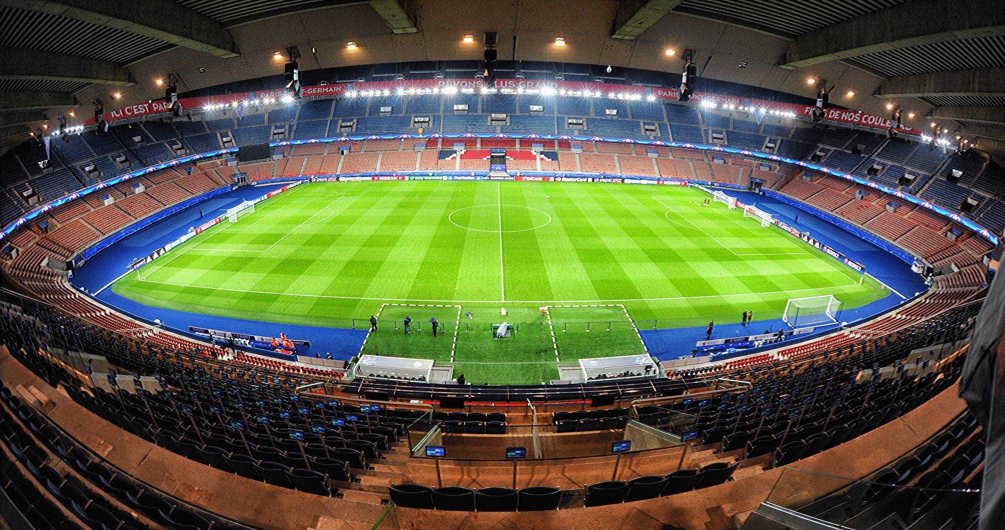 Parc des Princes in Paris (75), France